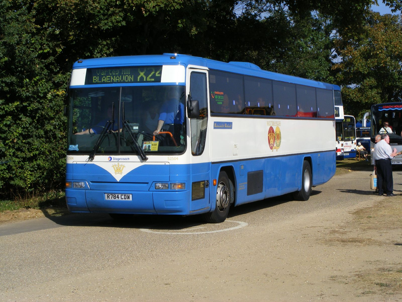 Stagecoach Red and White 52504 R784CDW